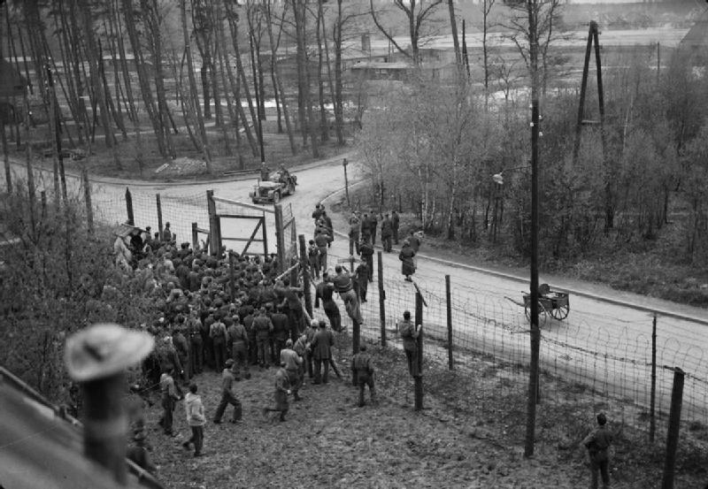 The British Army in North-west Europe 1944-45 British POWs welcome the arrival of liberating American troops at Oflag 79 in Brunswick, 12 April 1945.